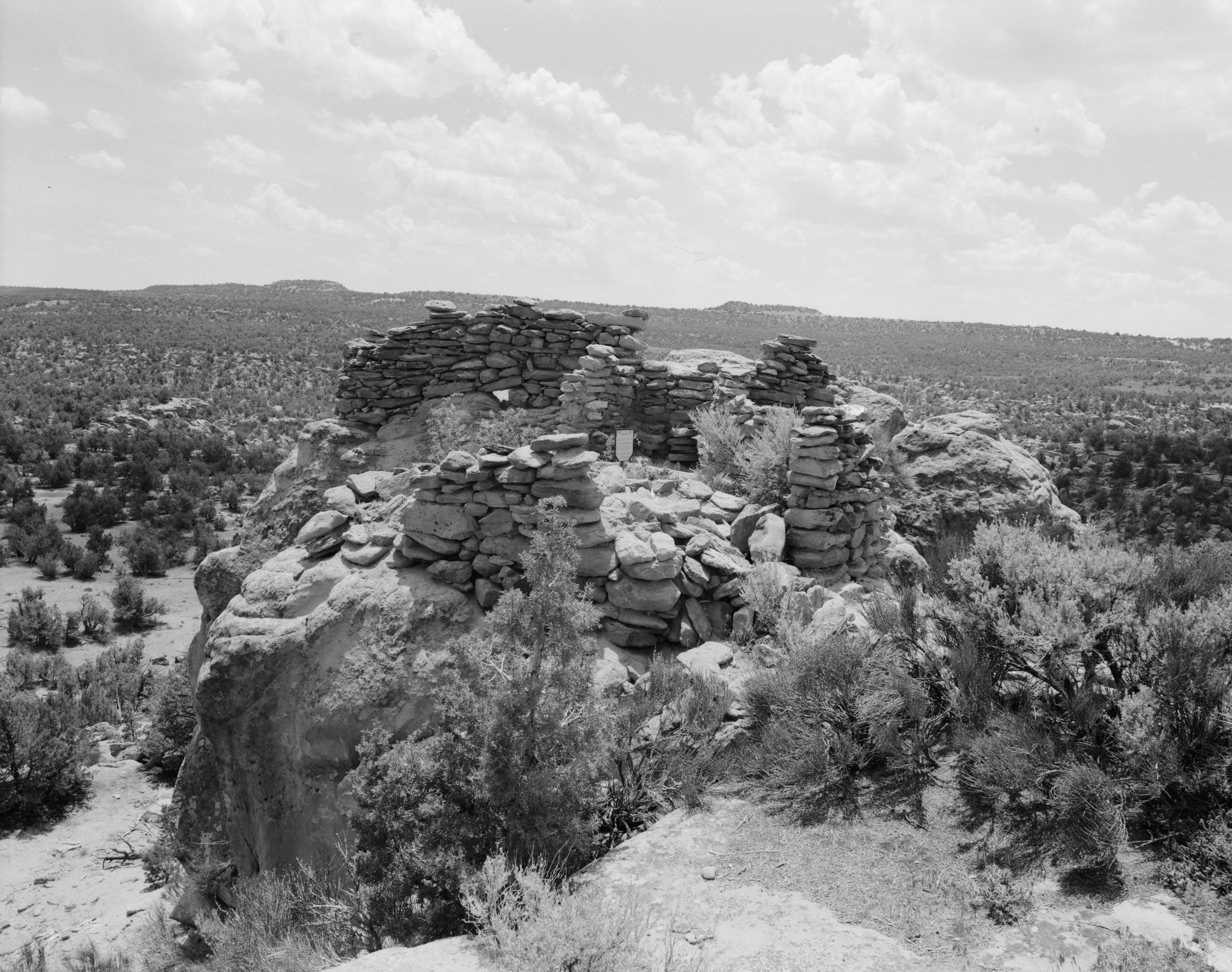 Southwestern side of the Adolfo Canyon Pueblito — a Navajo pueblito built in 1747, and on the National Register of Historic Places in Rio Arriba County. Located near Tierra Amarilla in Rio Arriba County, northwestern New Mexico, United States. Image: HABS—Historic American Buildings Survey of New Mexico.